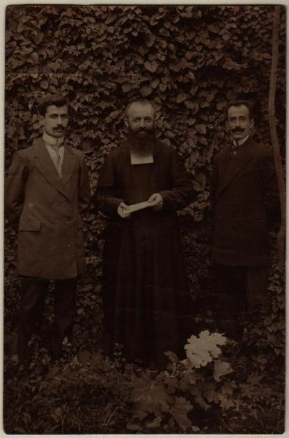 Dragan and Kiril Tapkov with a brother of De La Salle Brothers Congrgation.